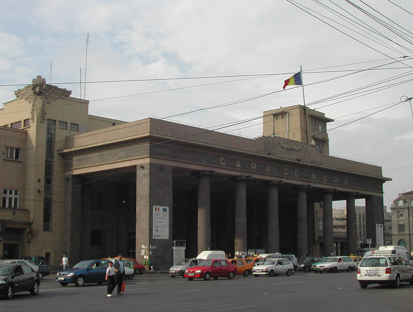 Main entrance of Gara de Nord in Bucharest, Romania.